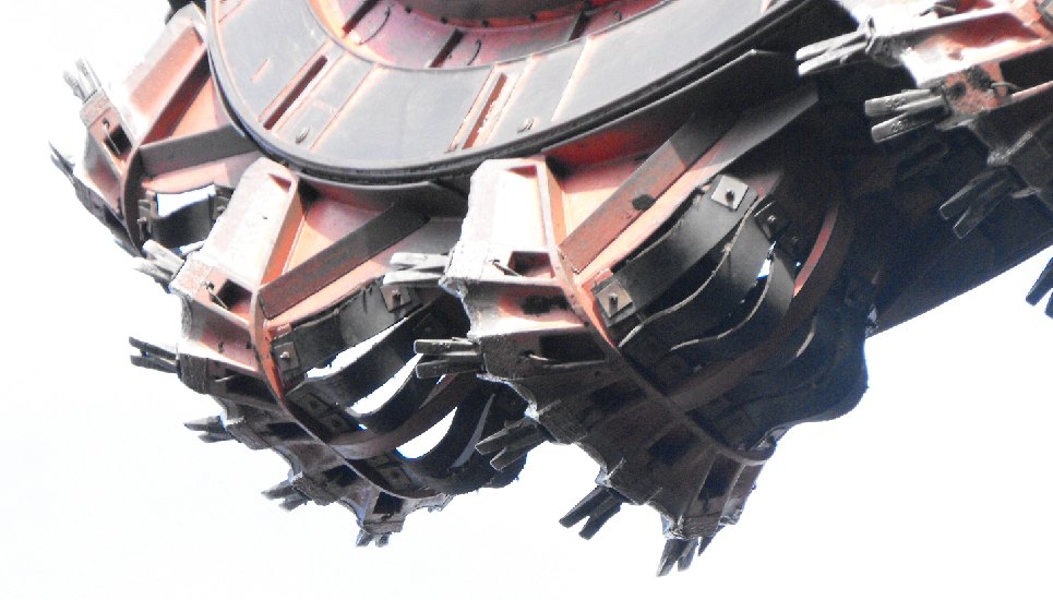 Bucket-wheel excavator bucket, Most city, ČSA surface mine